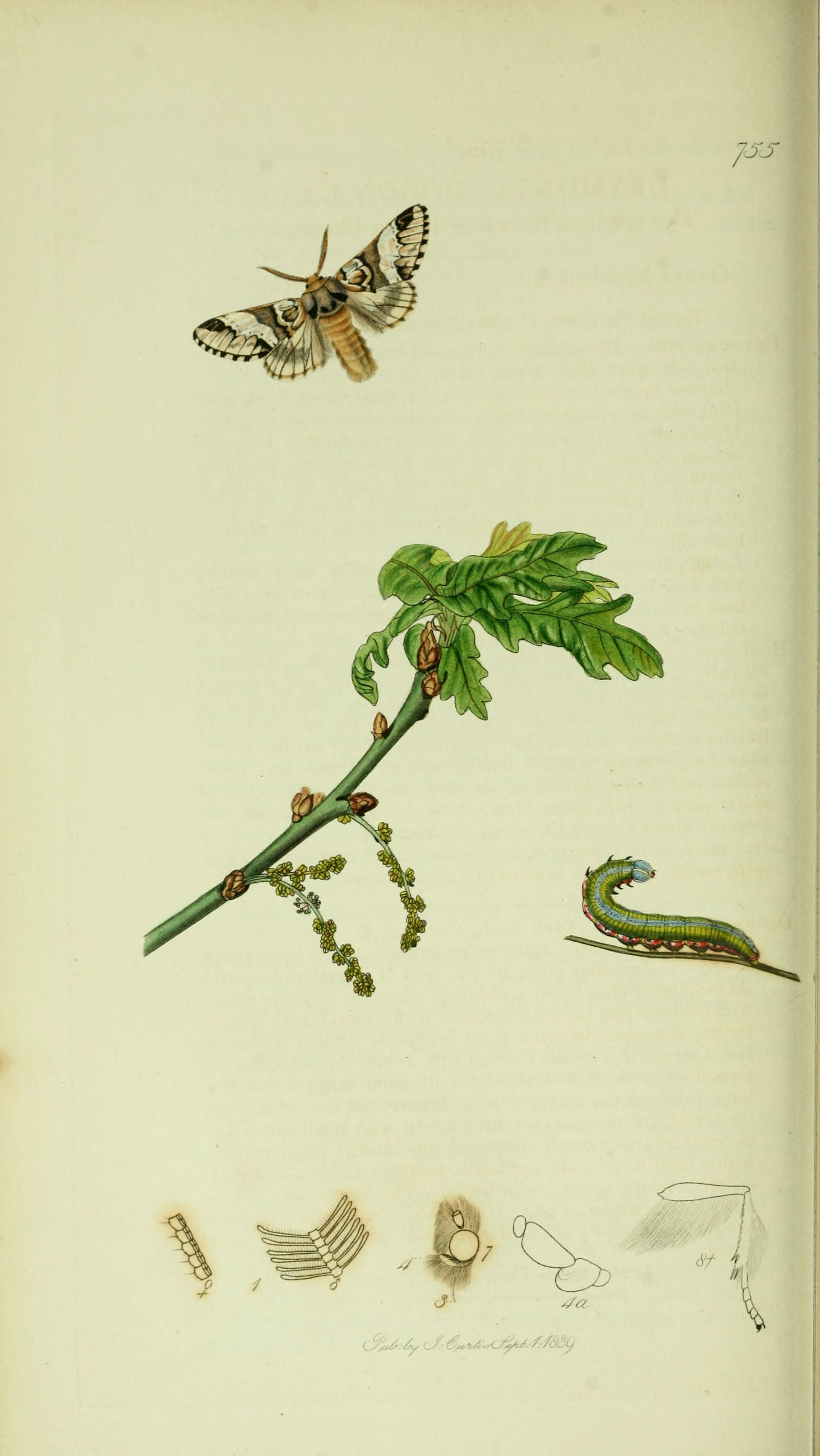 An illustration from British Entomology by John Curtis. Drymonia dodonaea (Kitten Likeness, Marbled Brown).